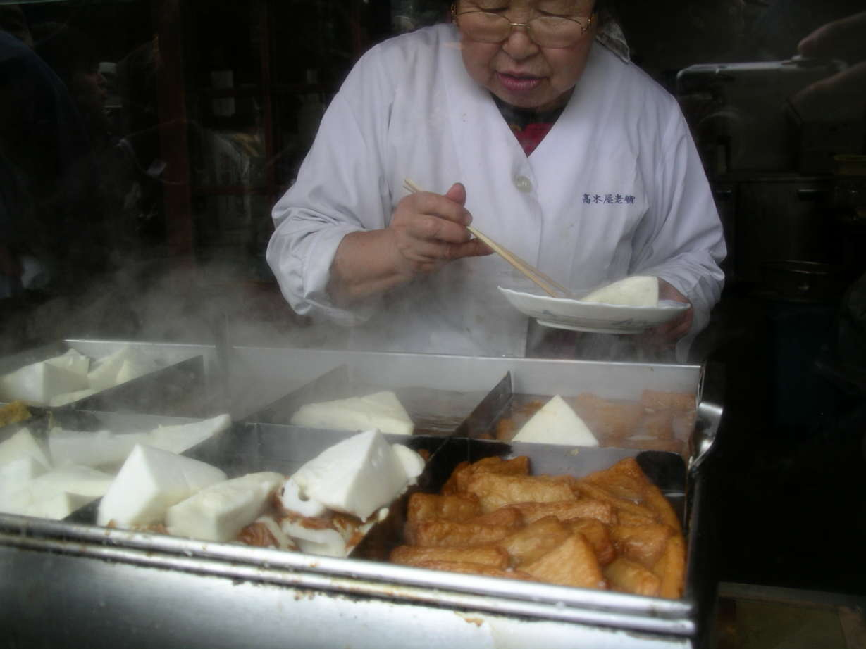 Oden is good food...but not to eat everyday.